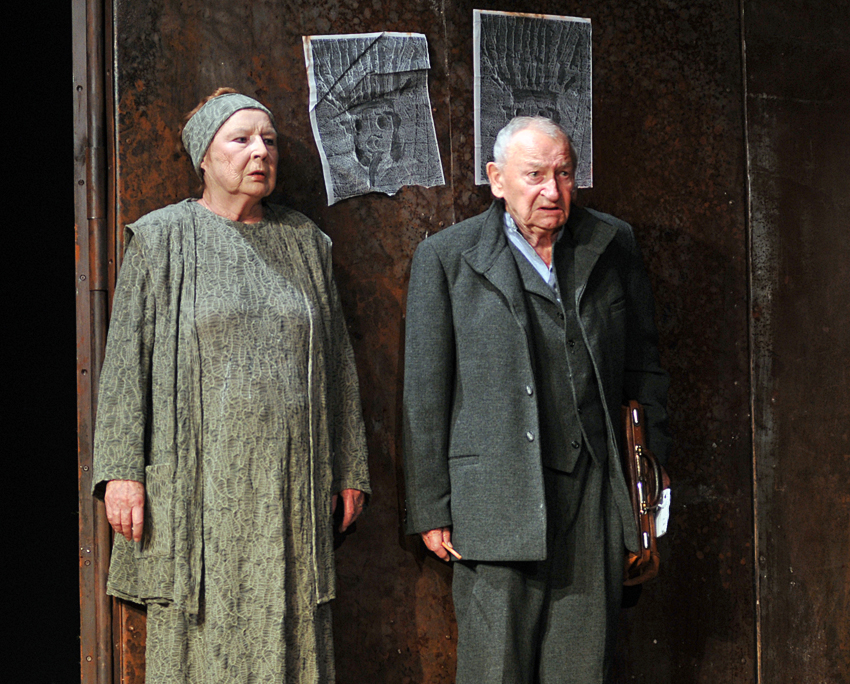 Éva Olsavszky and Vilmos Kun in Macbeth (Katona Jozsef Theatre in Budapest)